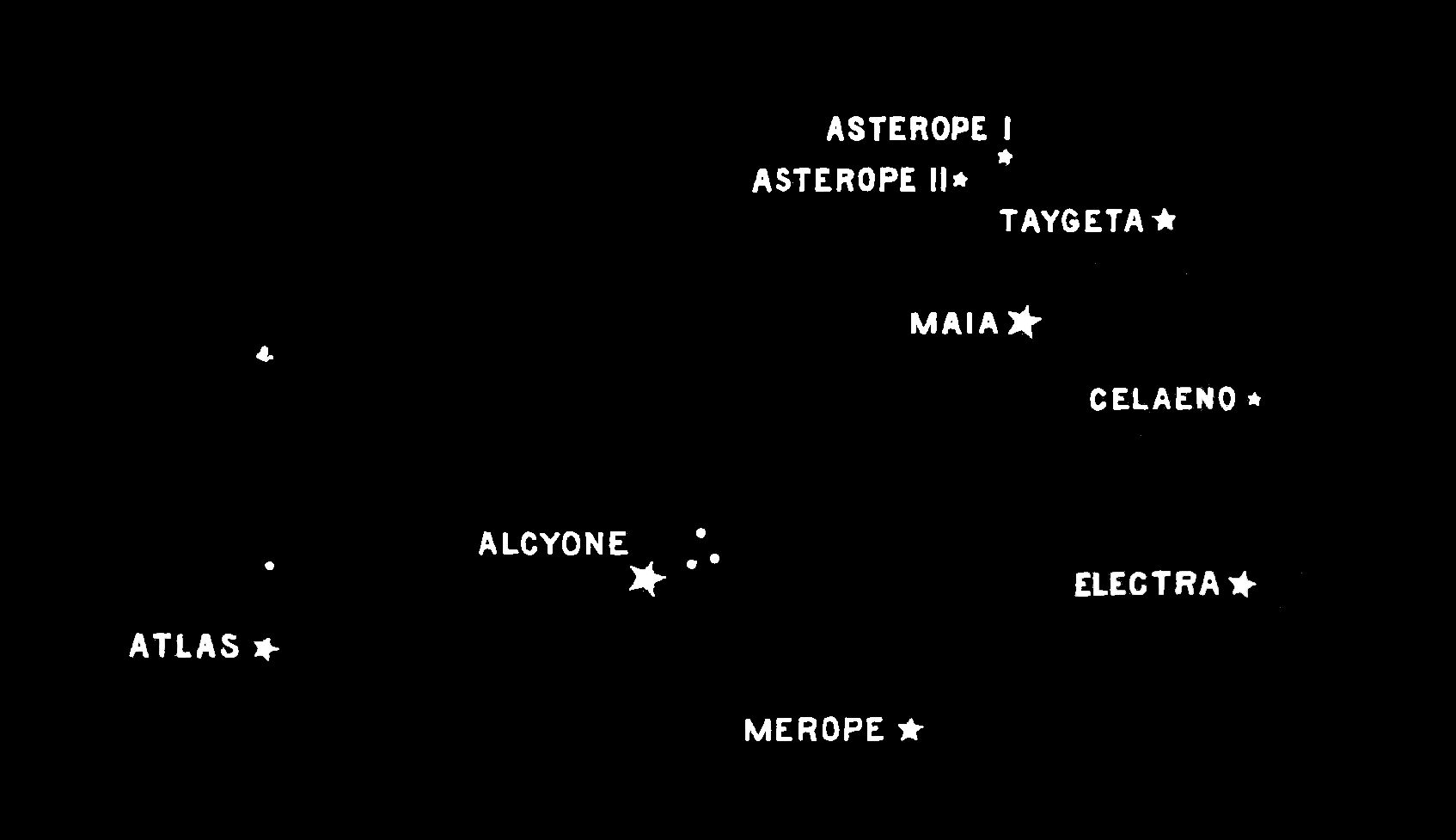 The chief stars in Pleiades